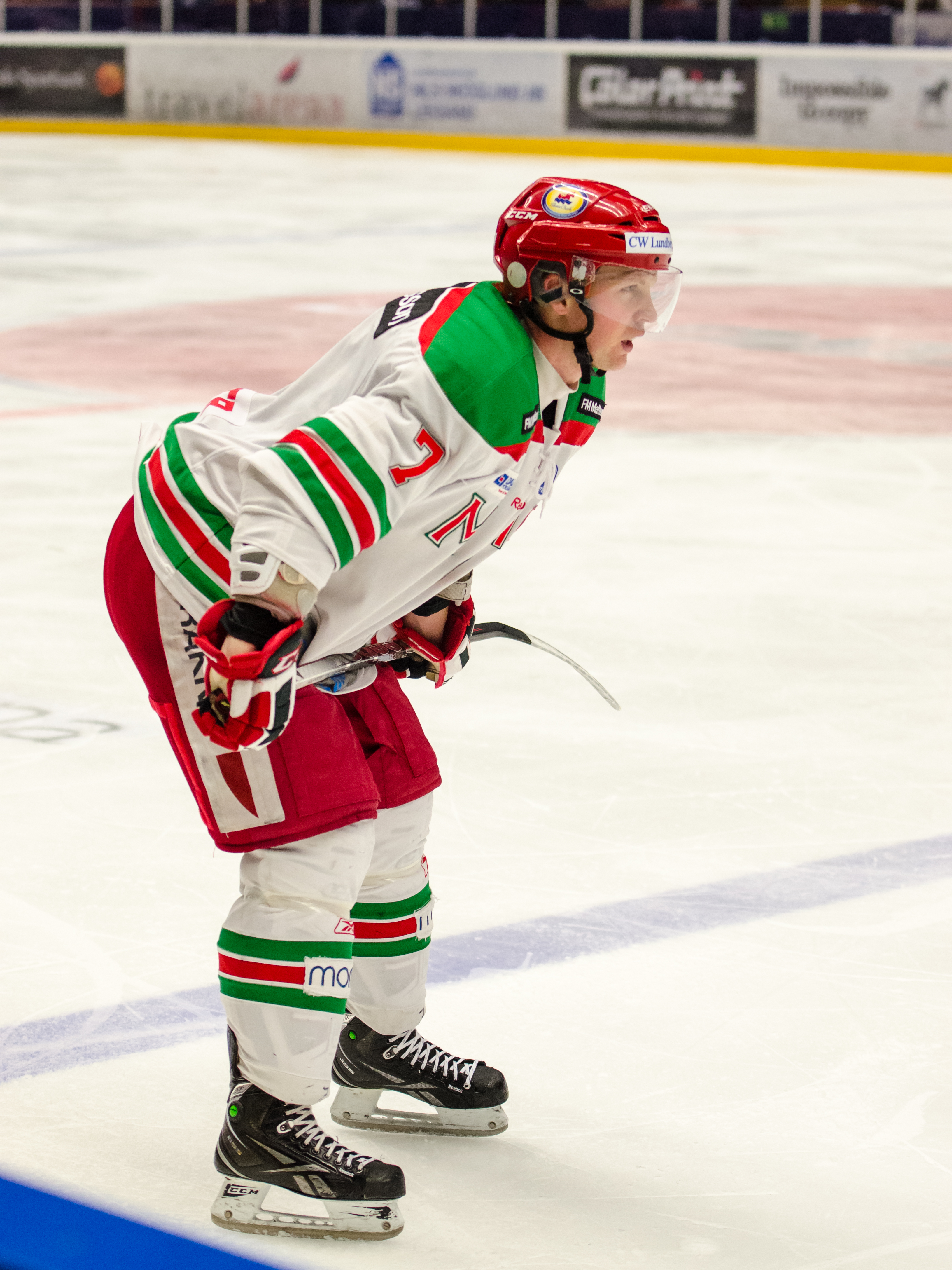 Peter Nolander playing for Mora IK in Hockeyallsvenskan (Swedish second league) against Leksands IF 2012-12-29.